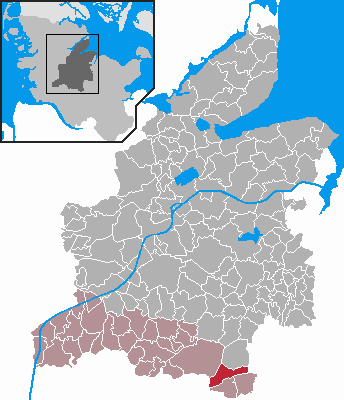 Locator maps of municipalities in Schleswig-Holstein - District Rendsburg-Eckernförde